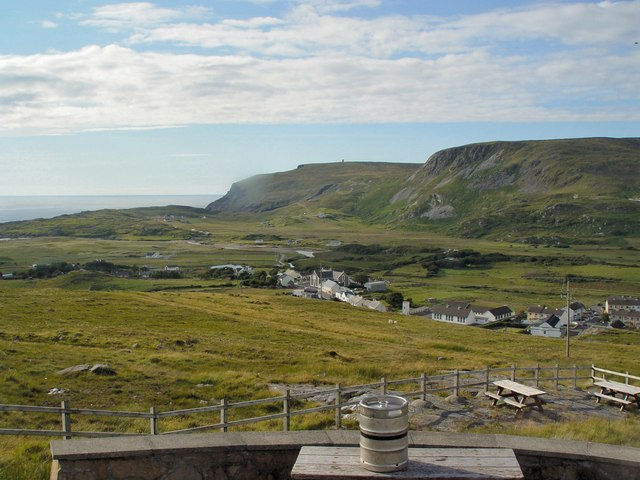 Glencolumbcille Looking North west from the picnic site above Glencolumbcille.